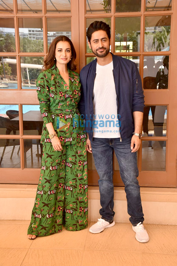 Dia Mirza and Mohit Raina snapped promoting their web series Kaafir